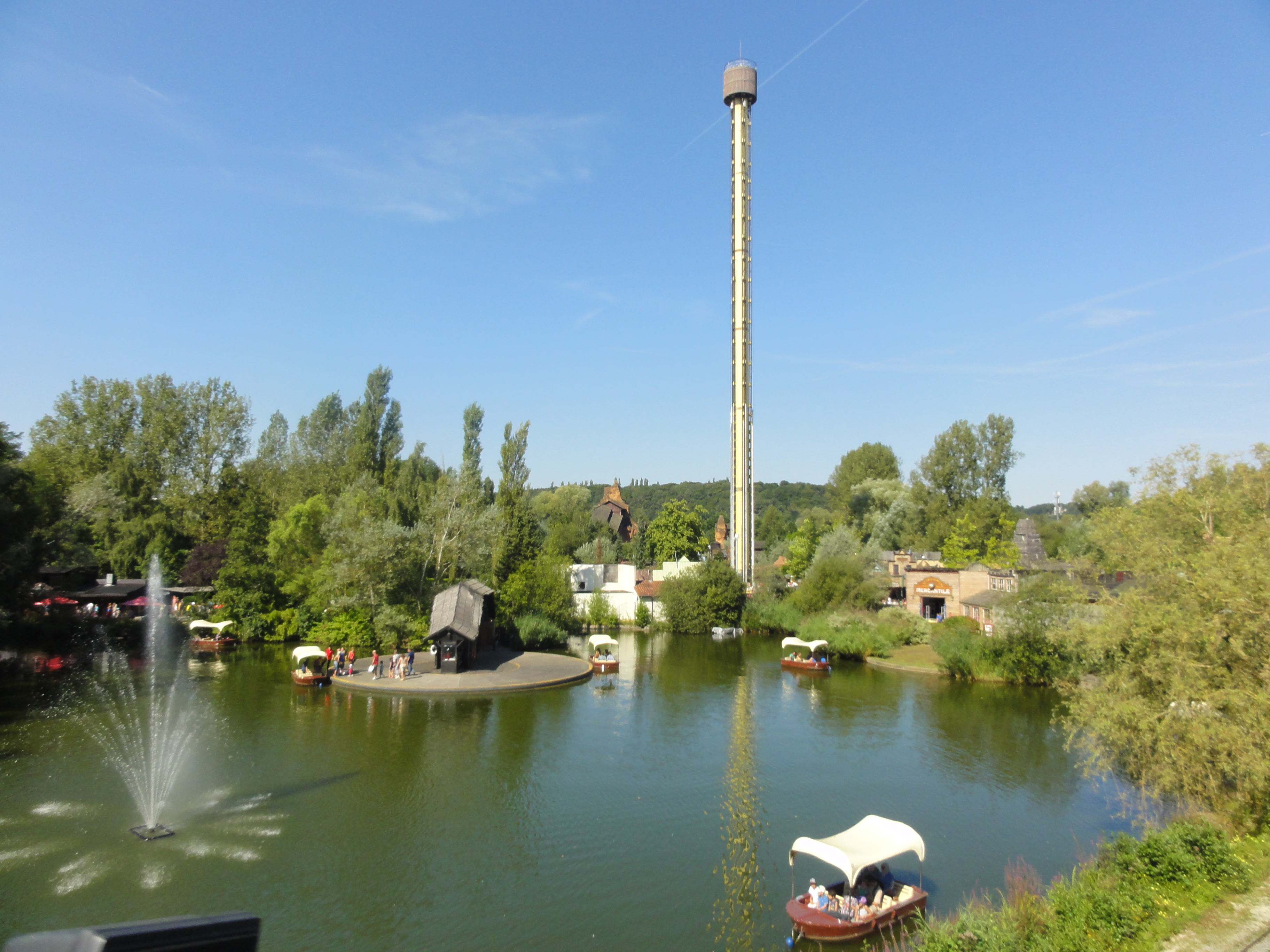 Dalton Terror, Walibi Belgium, Belgium.